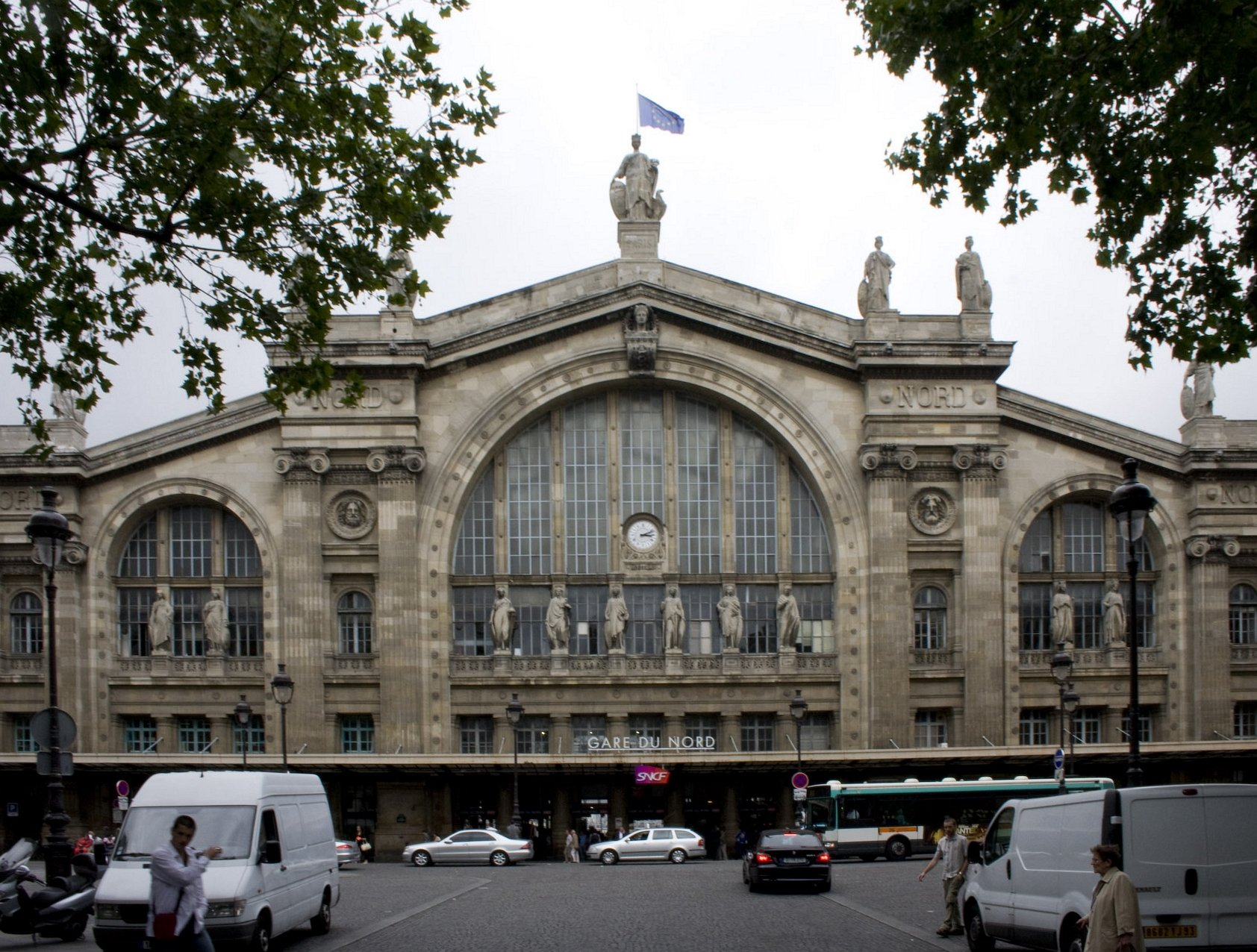 Gare du Nord terminal